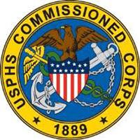 Seal of the United States Public Health Service Commissioned Corps (USPHSCC).